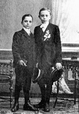 Joseph Goebbels (right) in his First Communion.